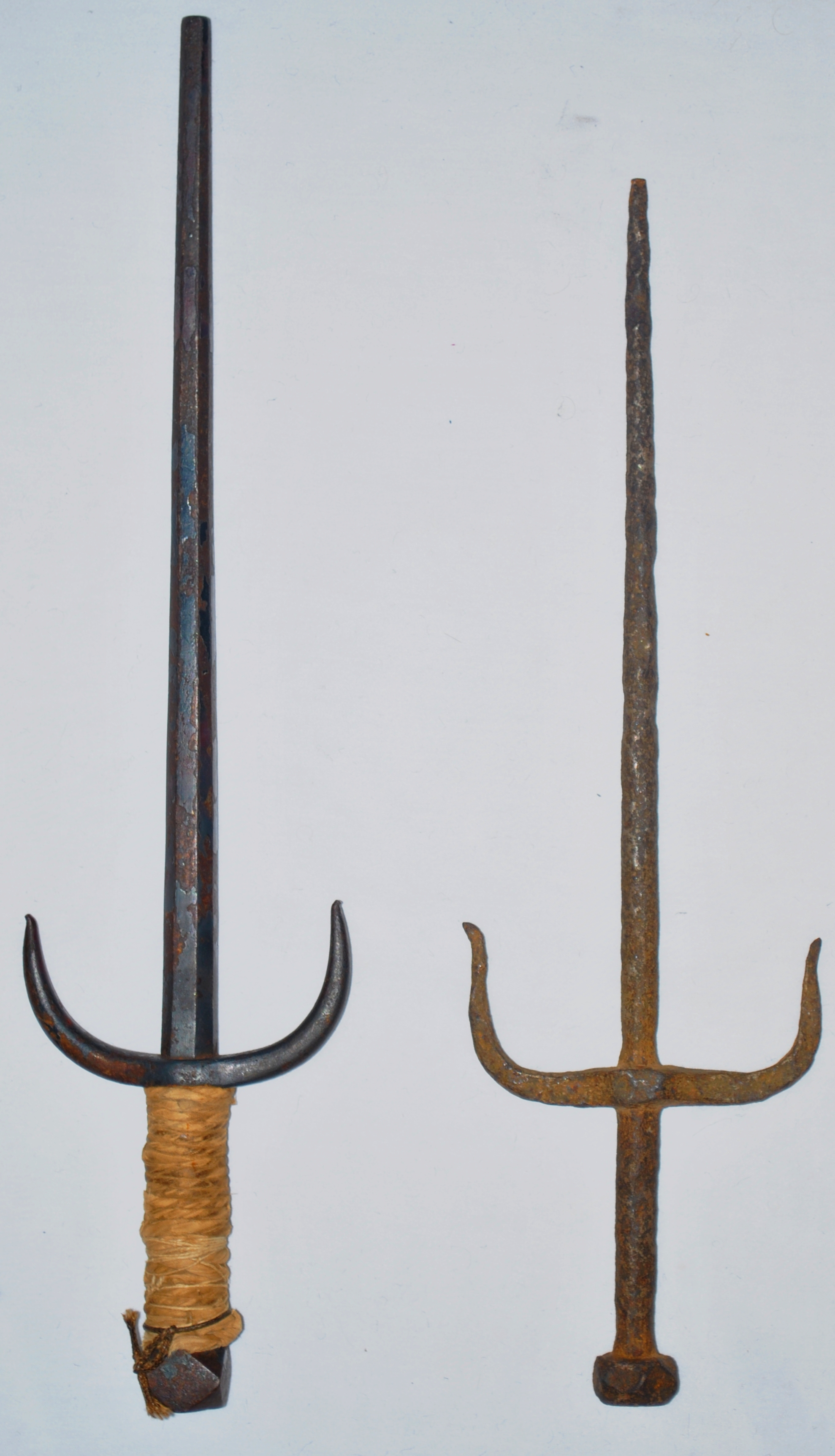 2 antique sai, an Okinawan type octagon sai and a smaller Indonesian sai (chabang/tjabang).